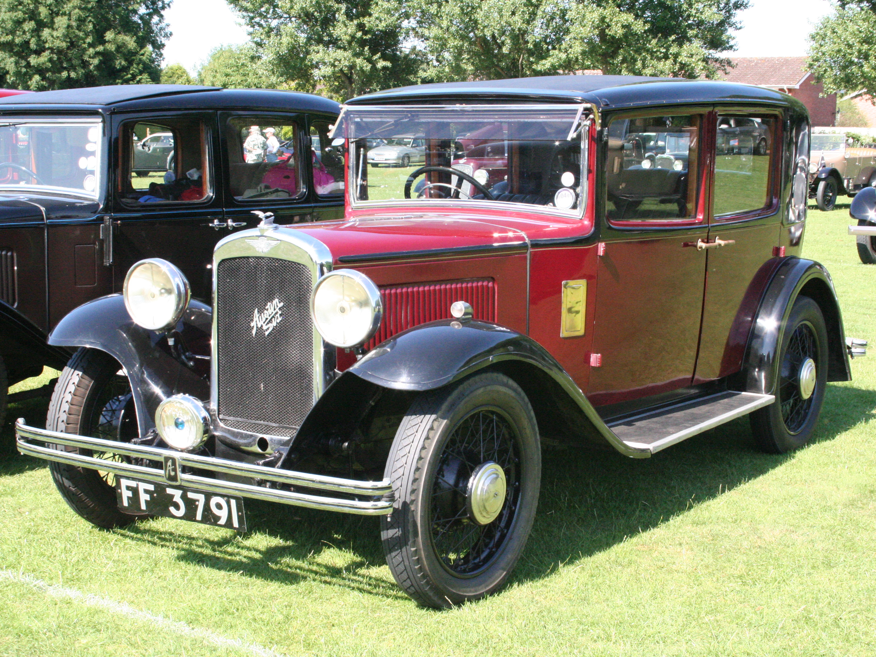 1932 Austin 16 Westminster saloonDVLA First registered 8 November 1932, 2107 cc